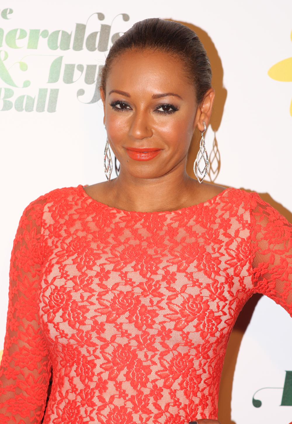 Melanie B at RONAN KEATING'S EMERALDS AND IVY BALL